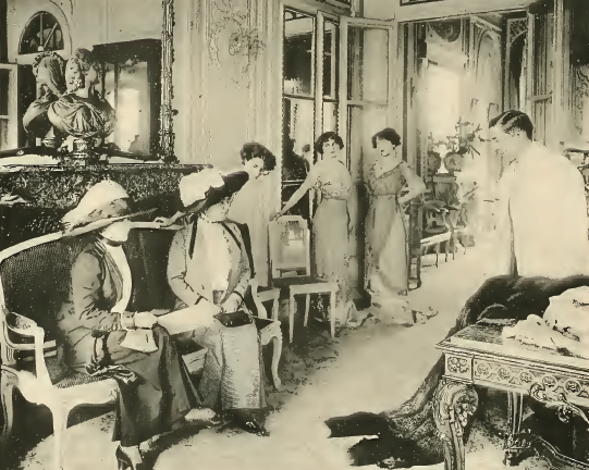 Image of George Doeuillet in his maison at the Place Vendome.